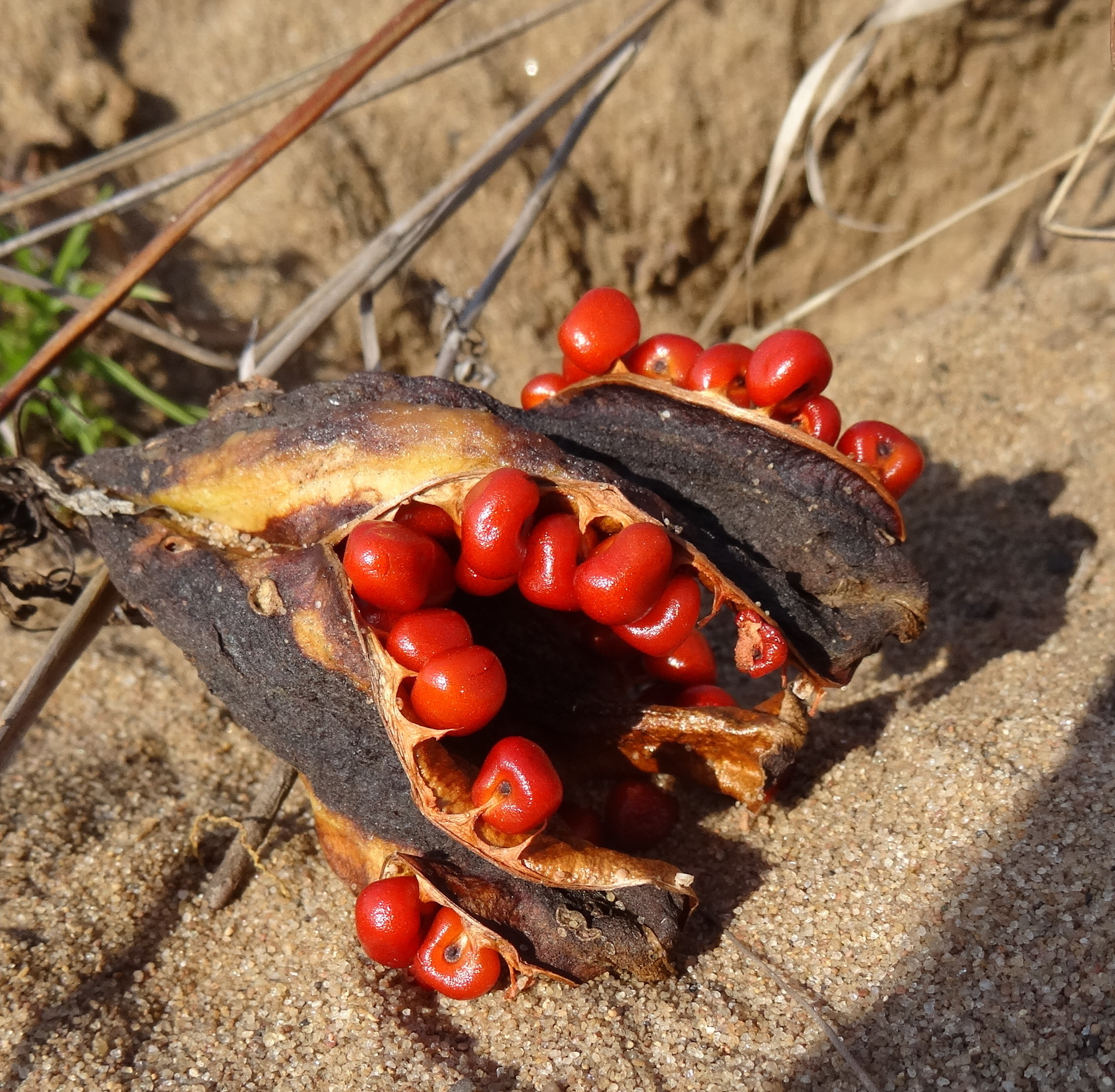 In the dunes close to Xai-Xai, southern Mozambique.